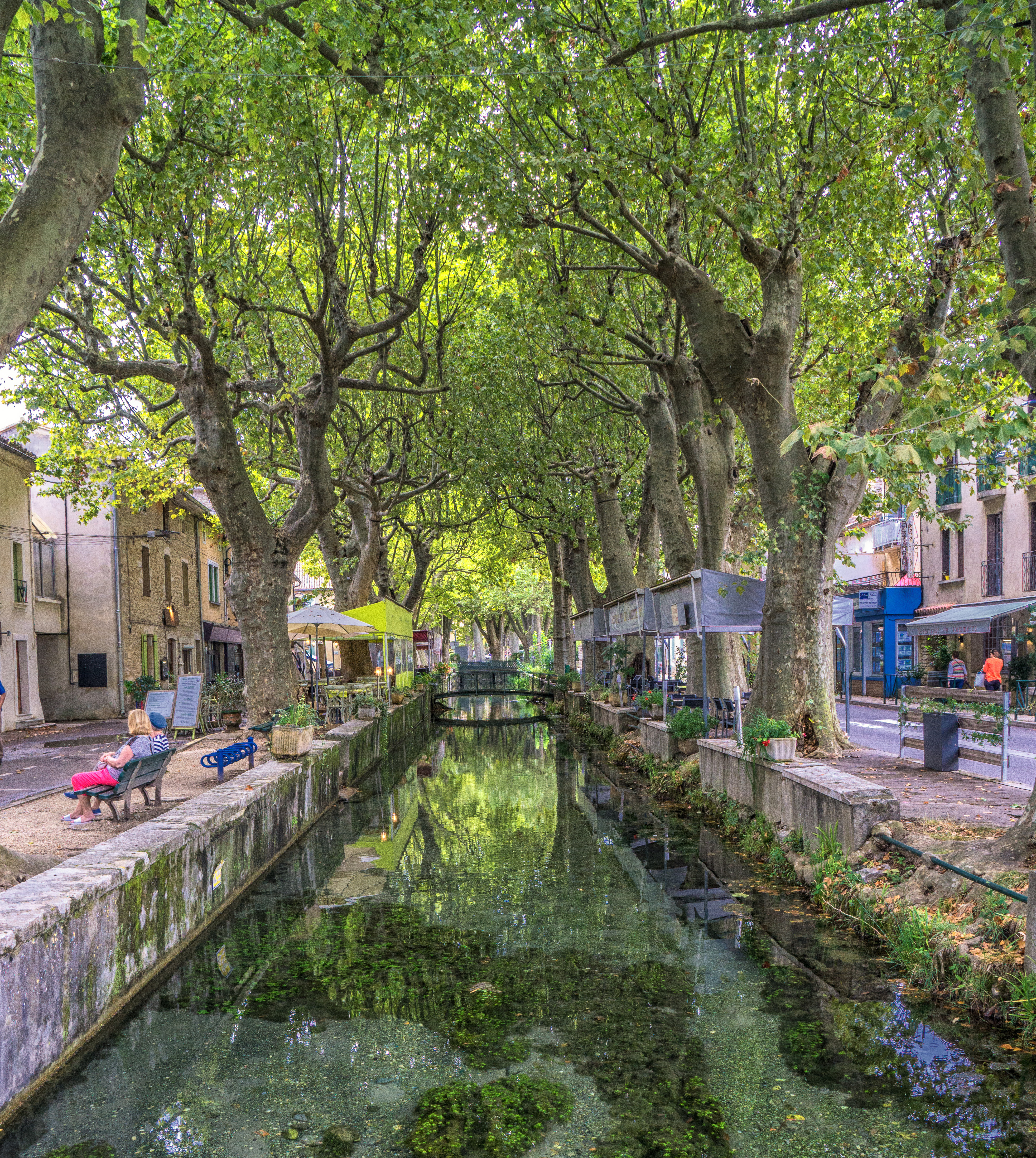 The river round the old town